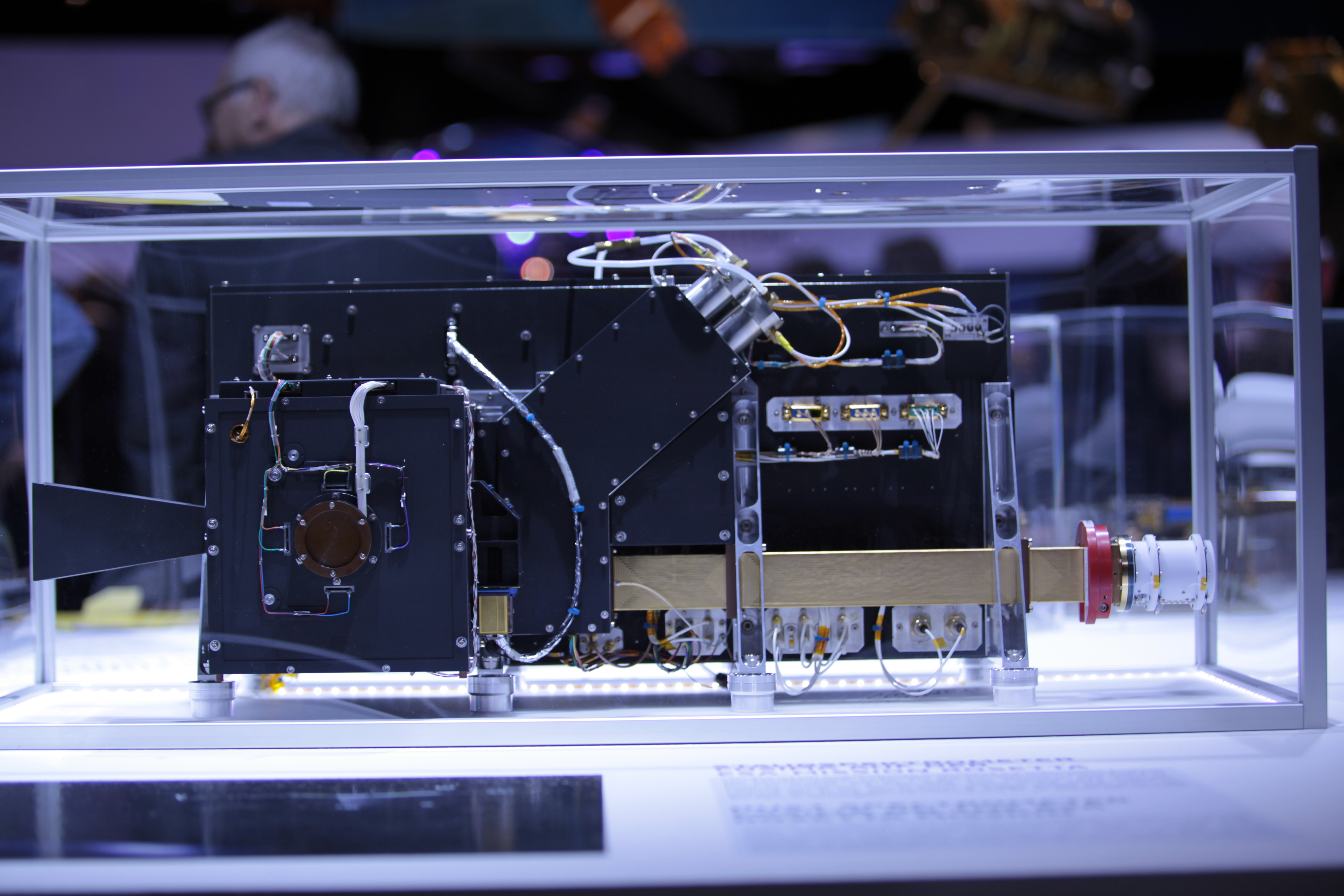 One of the Rosetta spacecraft instruments: COSIMA (Cometary Secondary Ion Mass Analyser), presented on ILA Berlin Air Show 2014